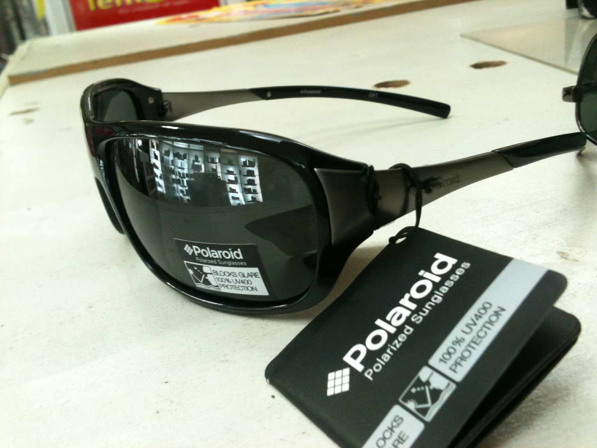 Polariod Sunglass